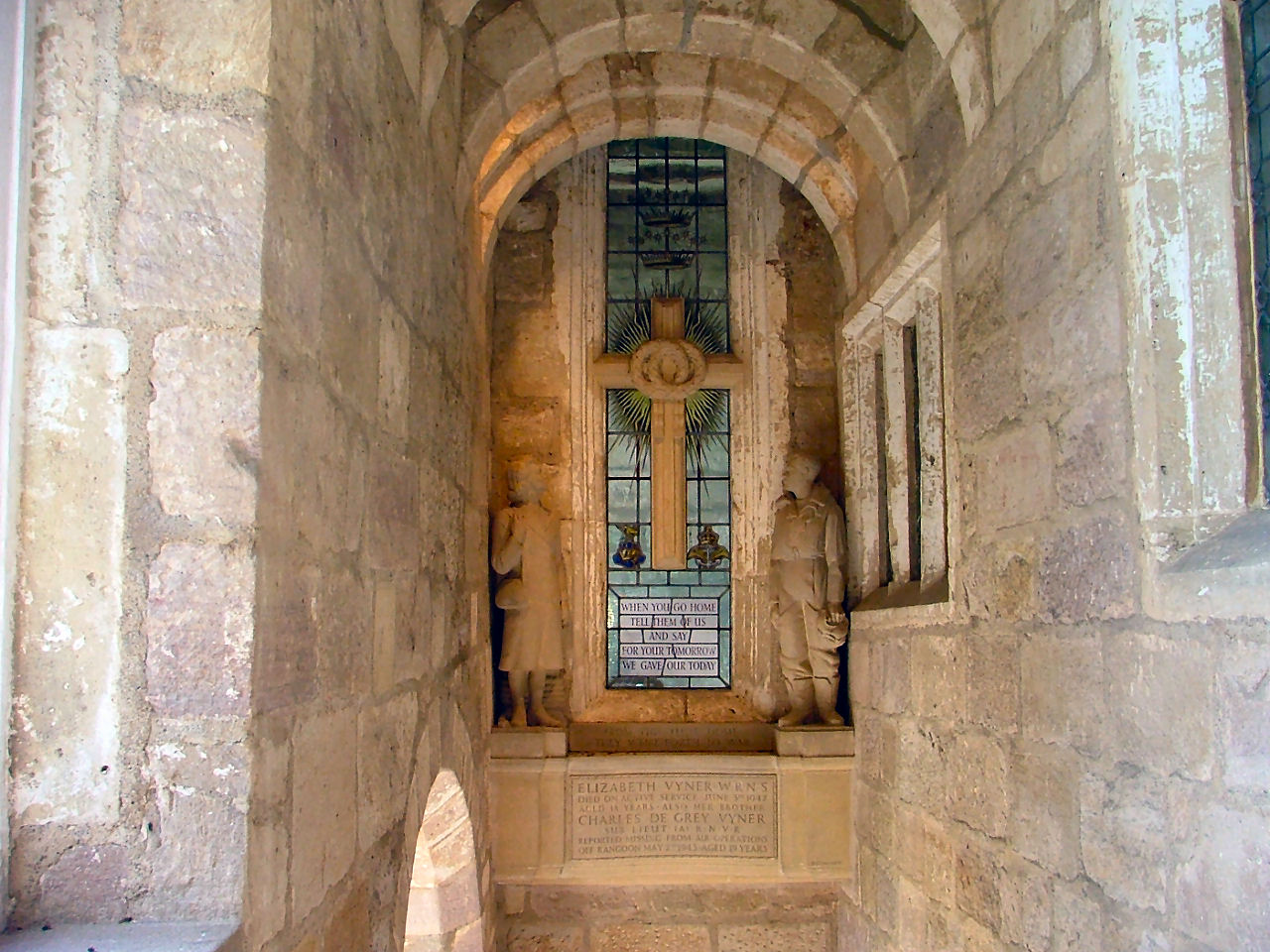 The Vyner memorial window and sculpture seen when descending stairs to exit the Hall